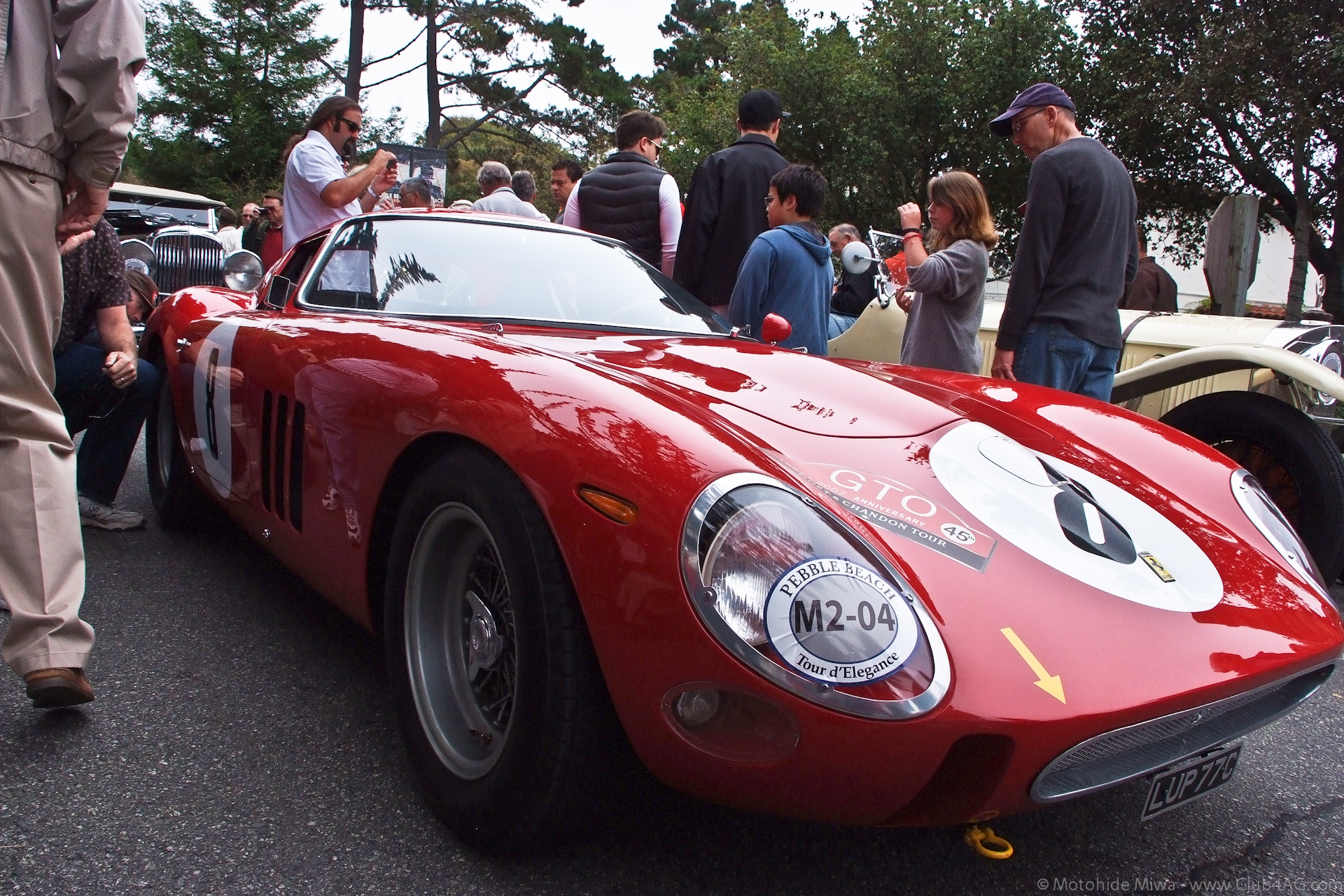 1962 Ferrari 250 GTO ’64 chassis number 3413GT at 2011 Monterey Historic Car Races.